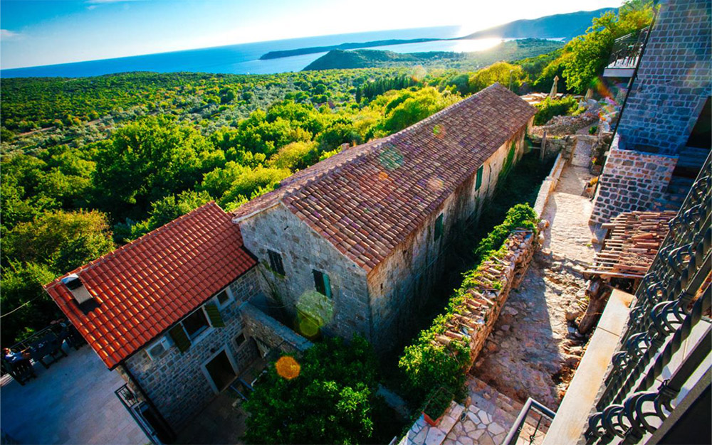 Klinci, Luštica